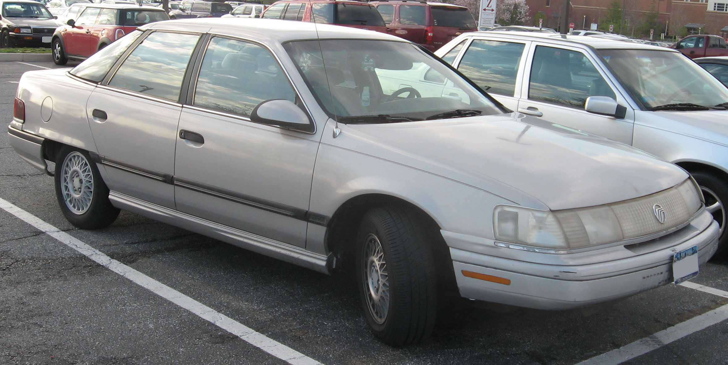 1989-1991 Mercury Sable photographed in College Park, Maryland, USA.